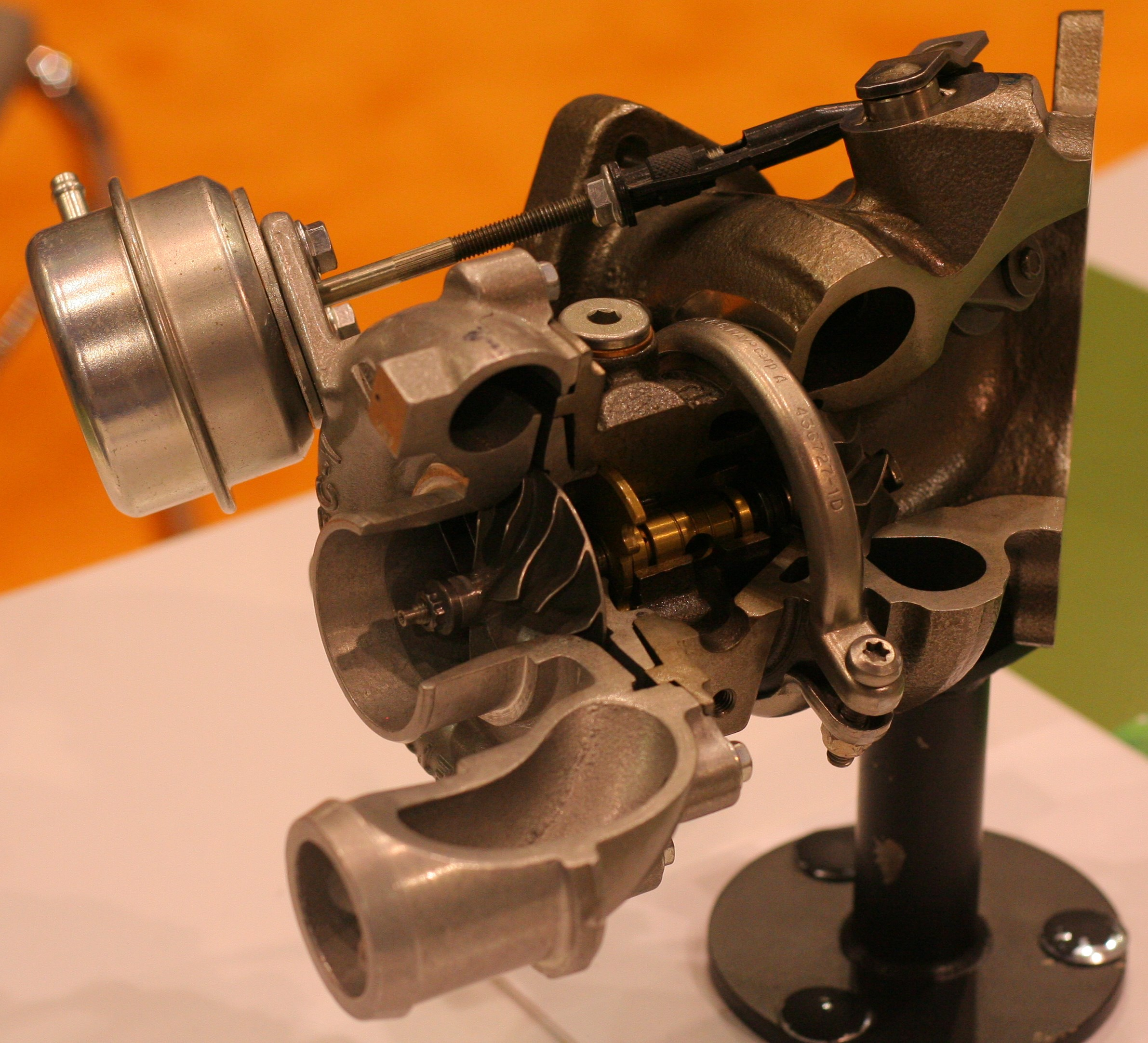 Turbocharger cut-out display in the Ford area.